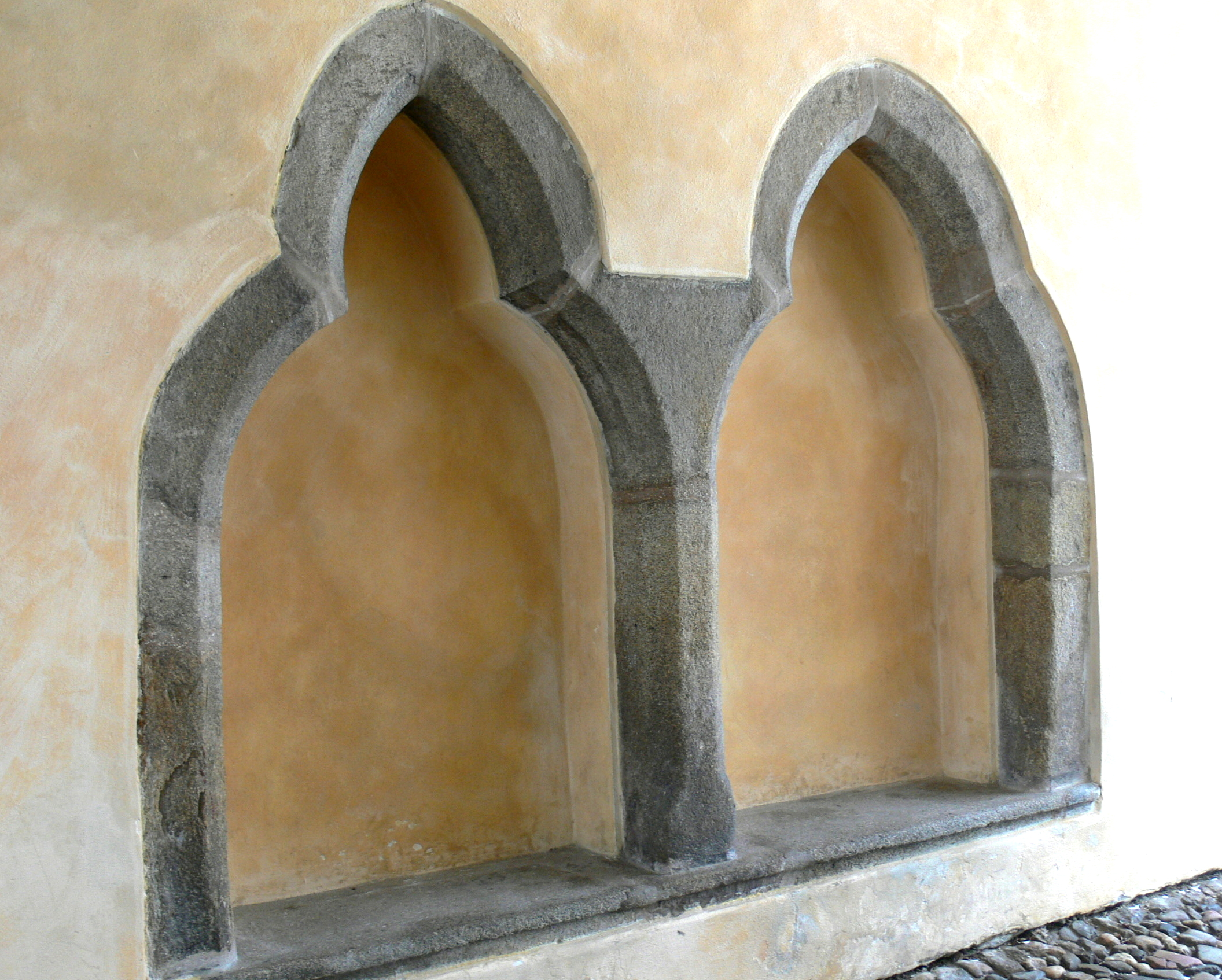 Jindřichův Hradec ( Czech Republic ). Castle: Gate - Gothic niches in the passage way